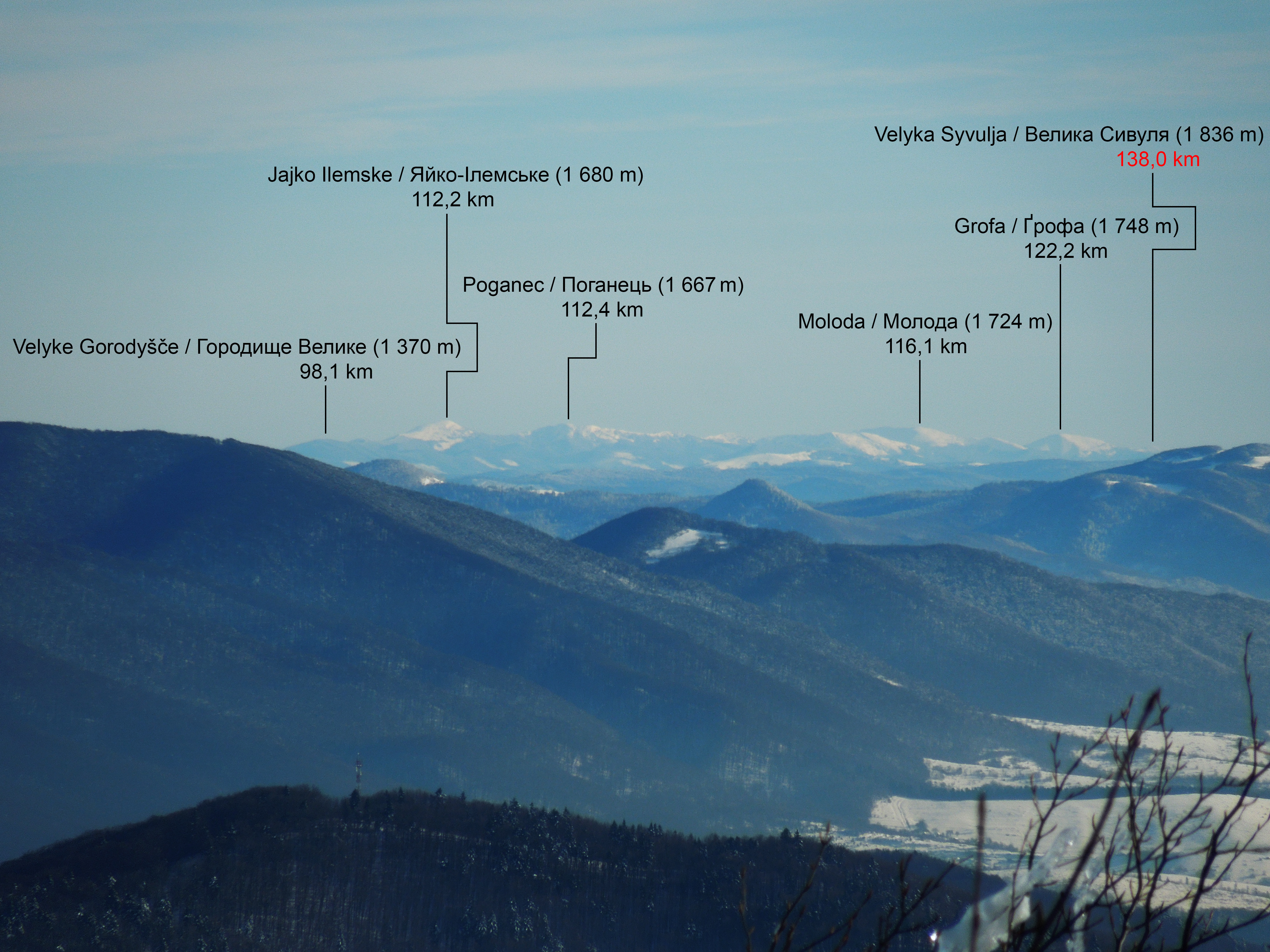 View of the Ukrainian peaks located in the Gorgany Mountains from peak Ďurkovec